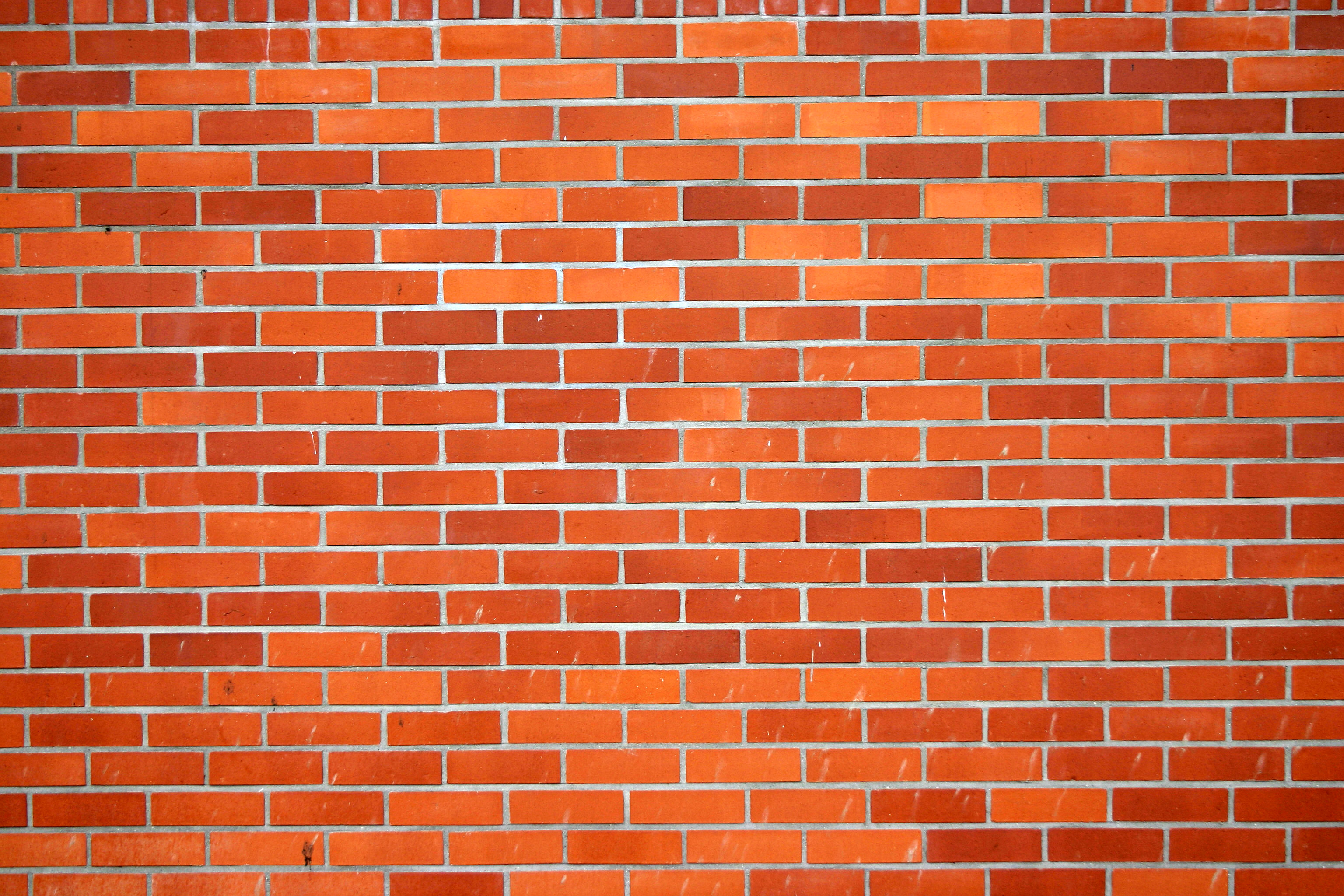 Brickwall